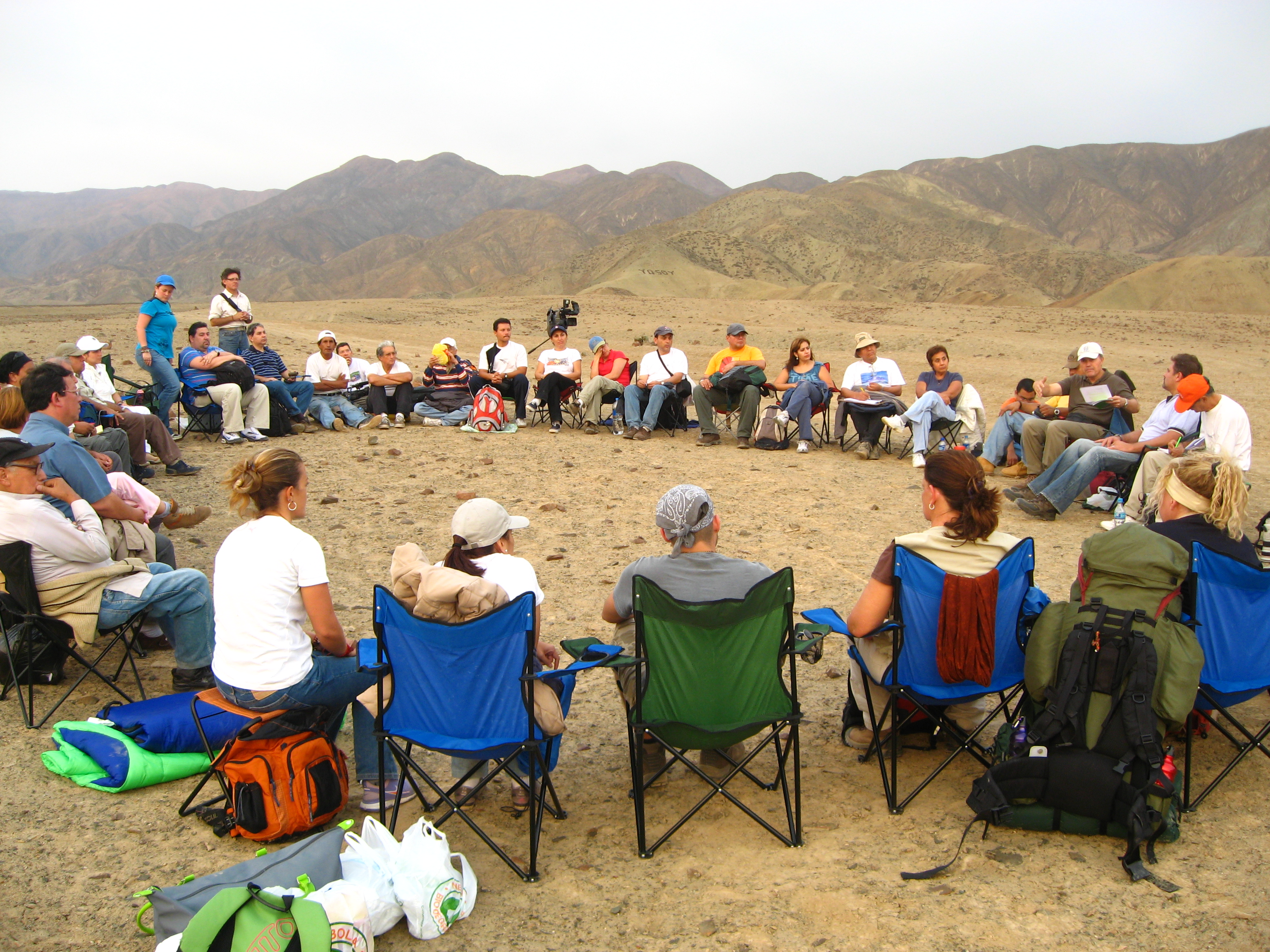 Group listening to Sixto Paz Wells (right side, white cap and brown shirt) during a field trip on Chilca desert, Peru